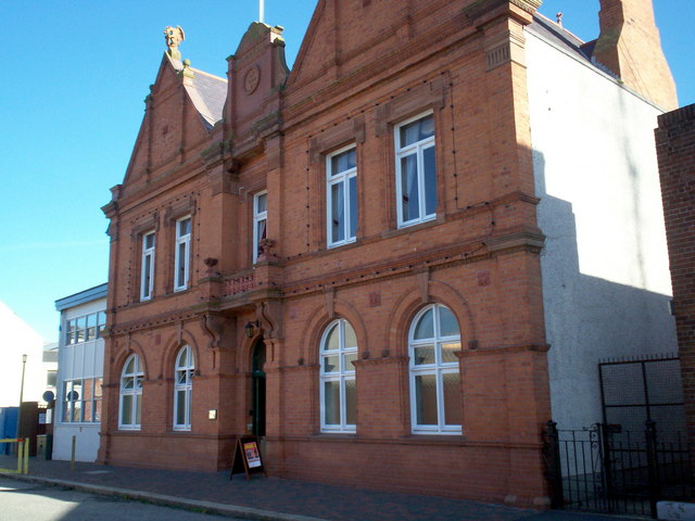 Portadown Town Hall, Edward Street, Portadown. Portadown Town Hall, built in 1890, was once the seat of local government until the building of the Craigavon Civic Centre. It is still used for performances and exhibitions-and since 1923, for the annual Festival of Music and Drama.